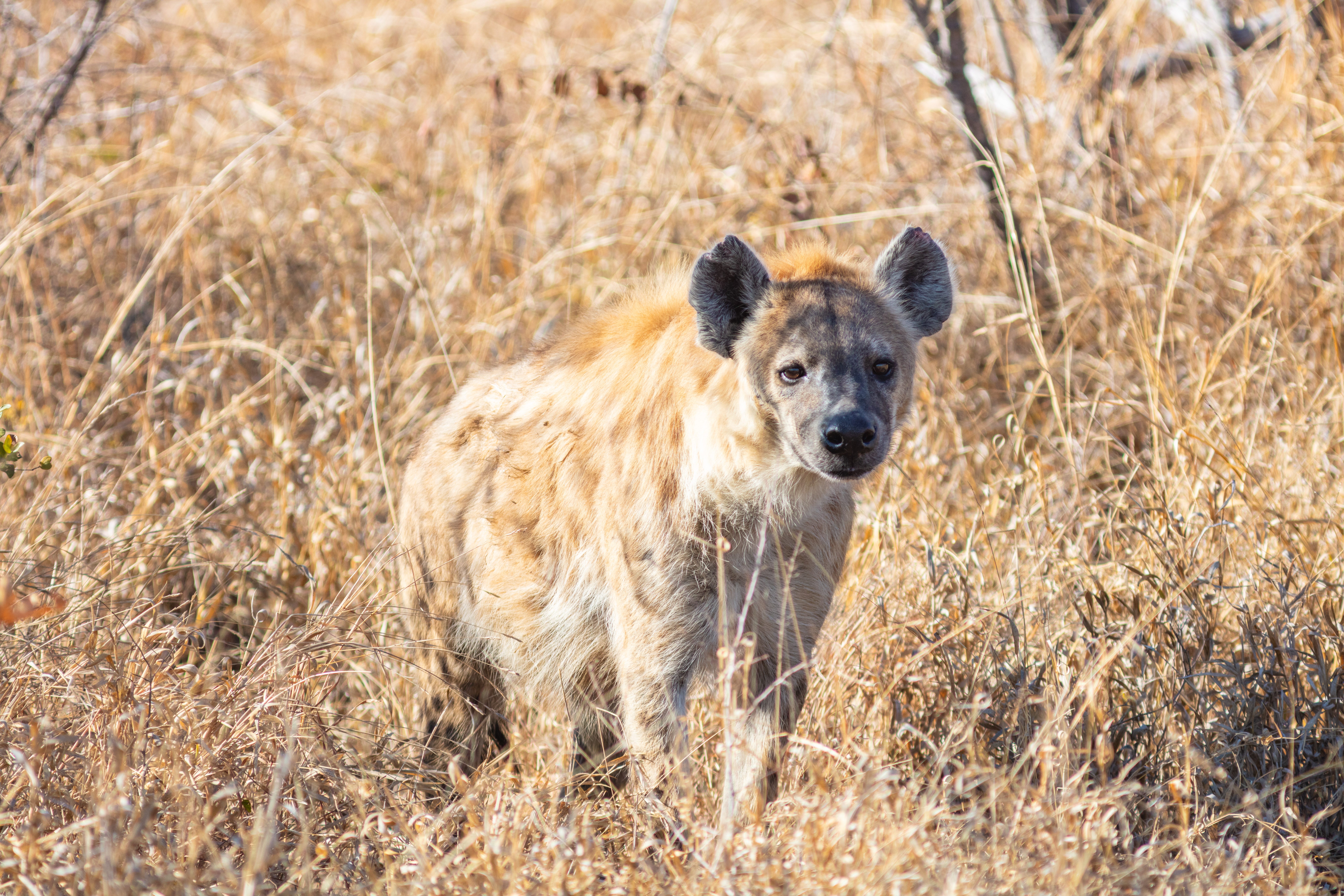 Spotted hyena (Crocuta crocuta), Kruger National Park, South Africa